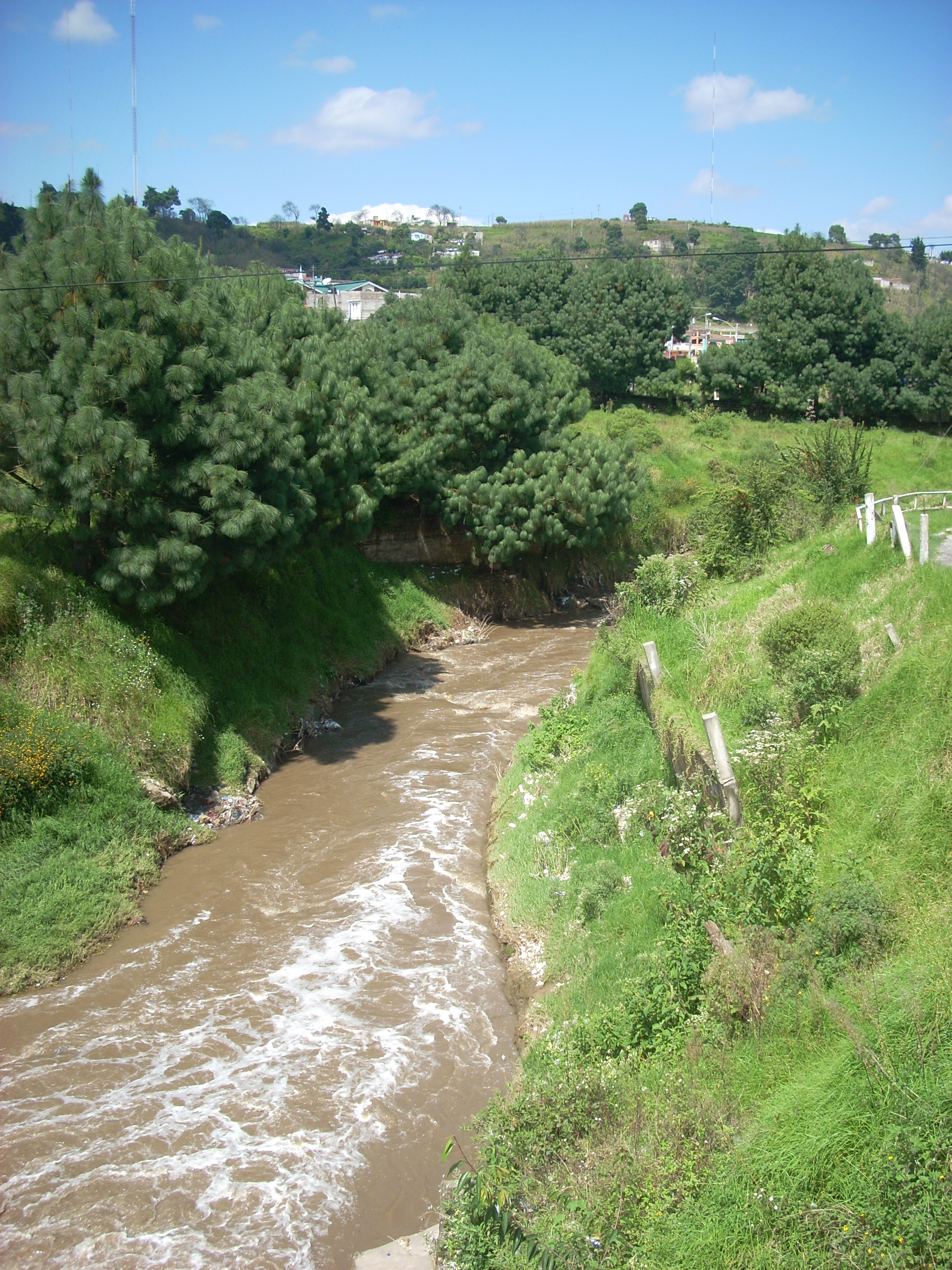 The River Samalá flowing through the outskirts of Quetzaltenango city at Las Rosas. Guatemala.